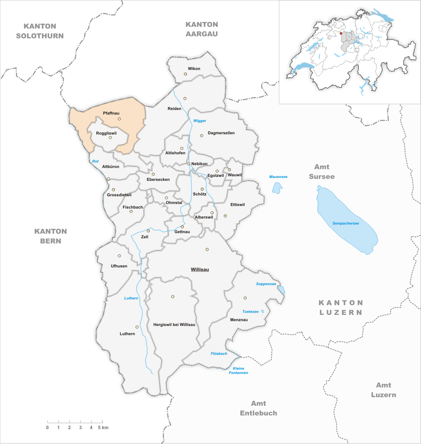 Municipality Pfaffnau